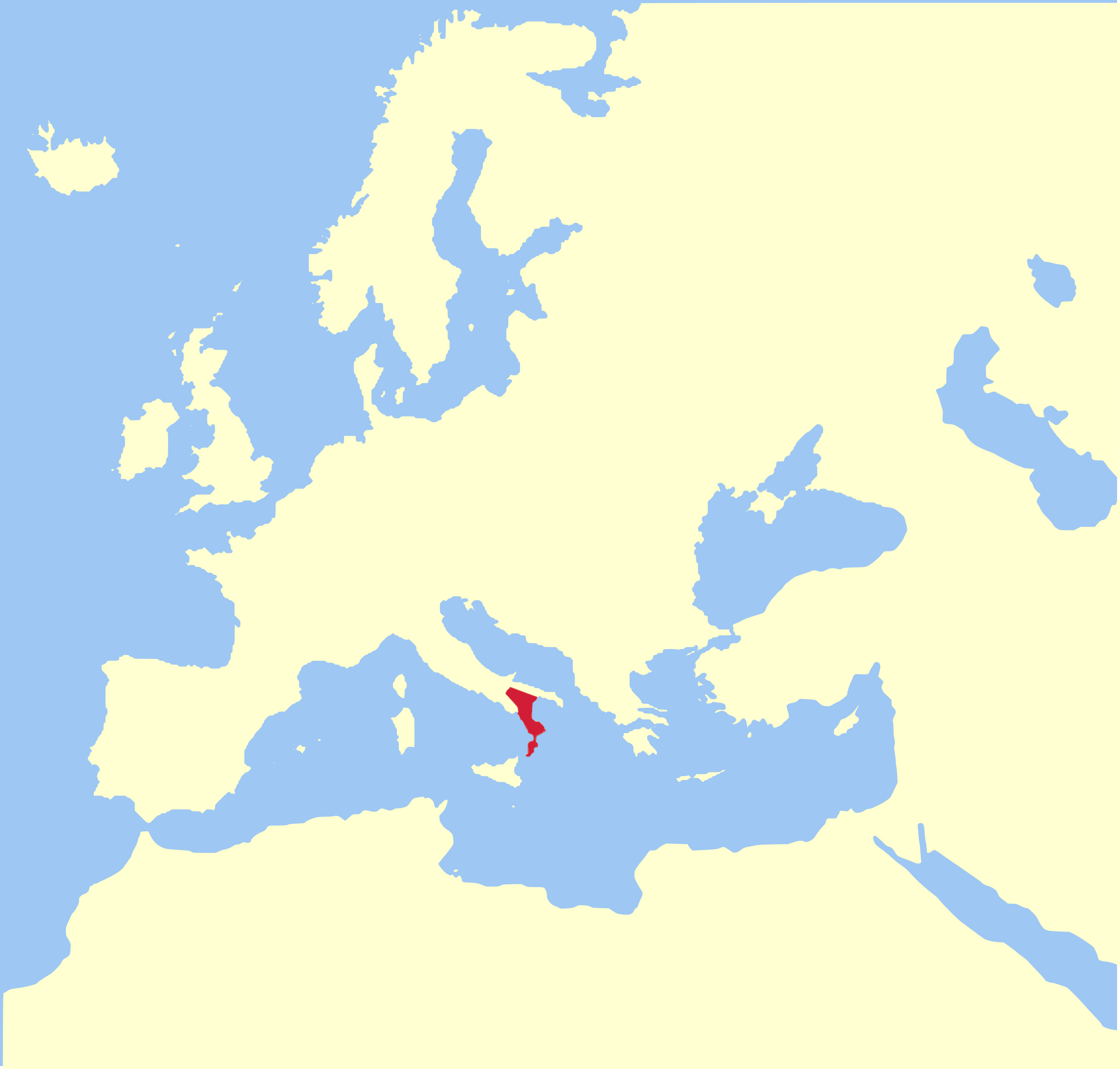 Sciurus meridionalis range map.